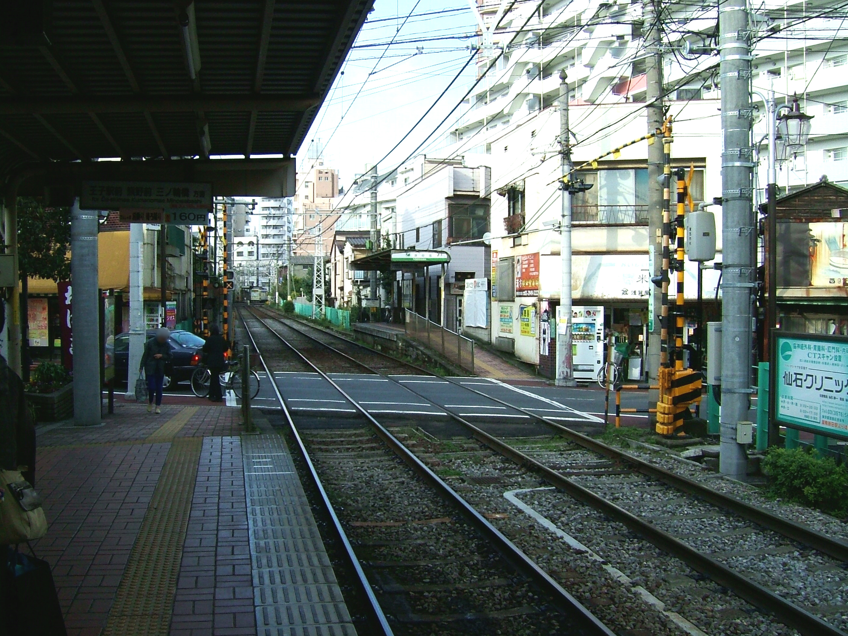 The platforms for Waseda at Kōshinzuka Station on the Toden Arakawa Line in Toshima city, Tokyo, Japan